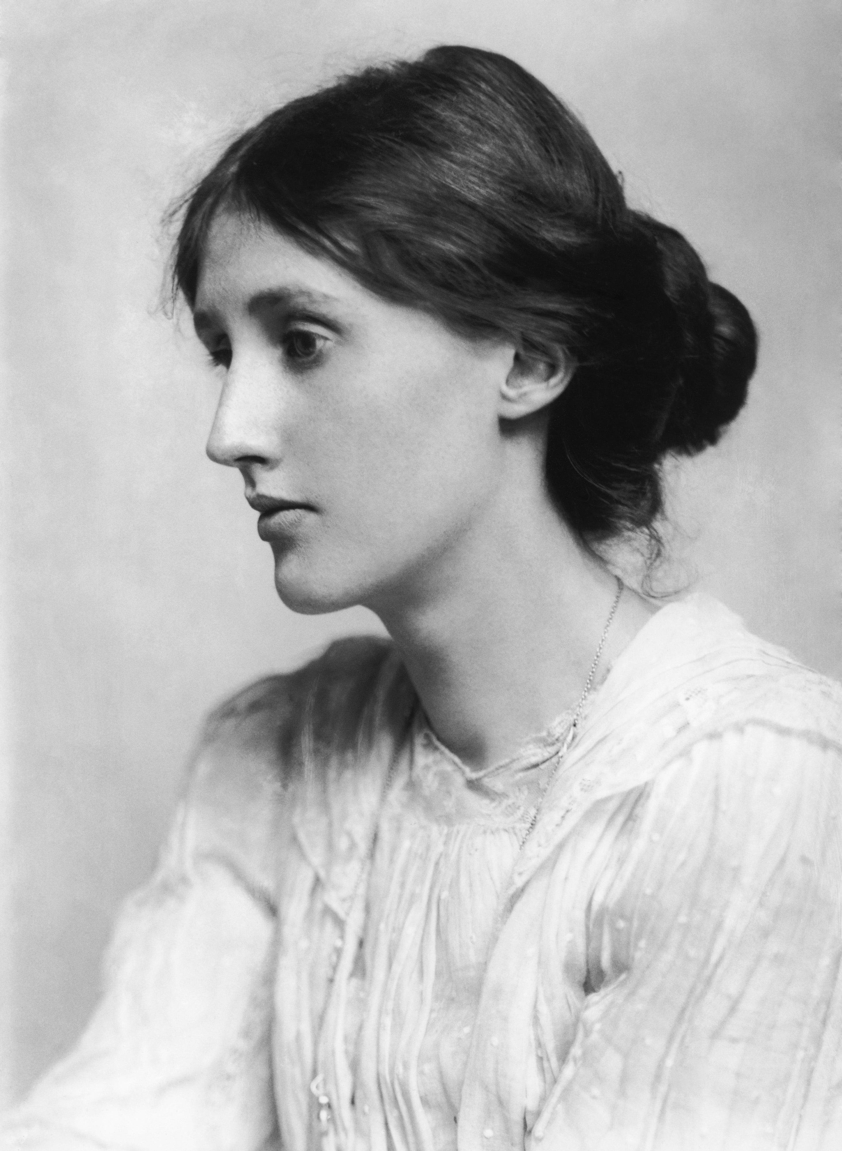 Portrait of Virginia Woolf (January 25, 1882 – March 28, 1941), a British author and feminist, with her chignon.